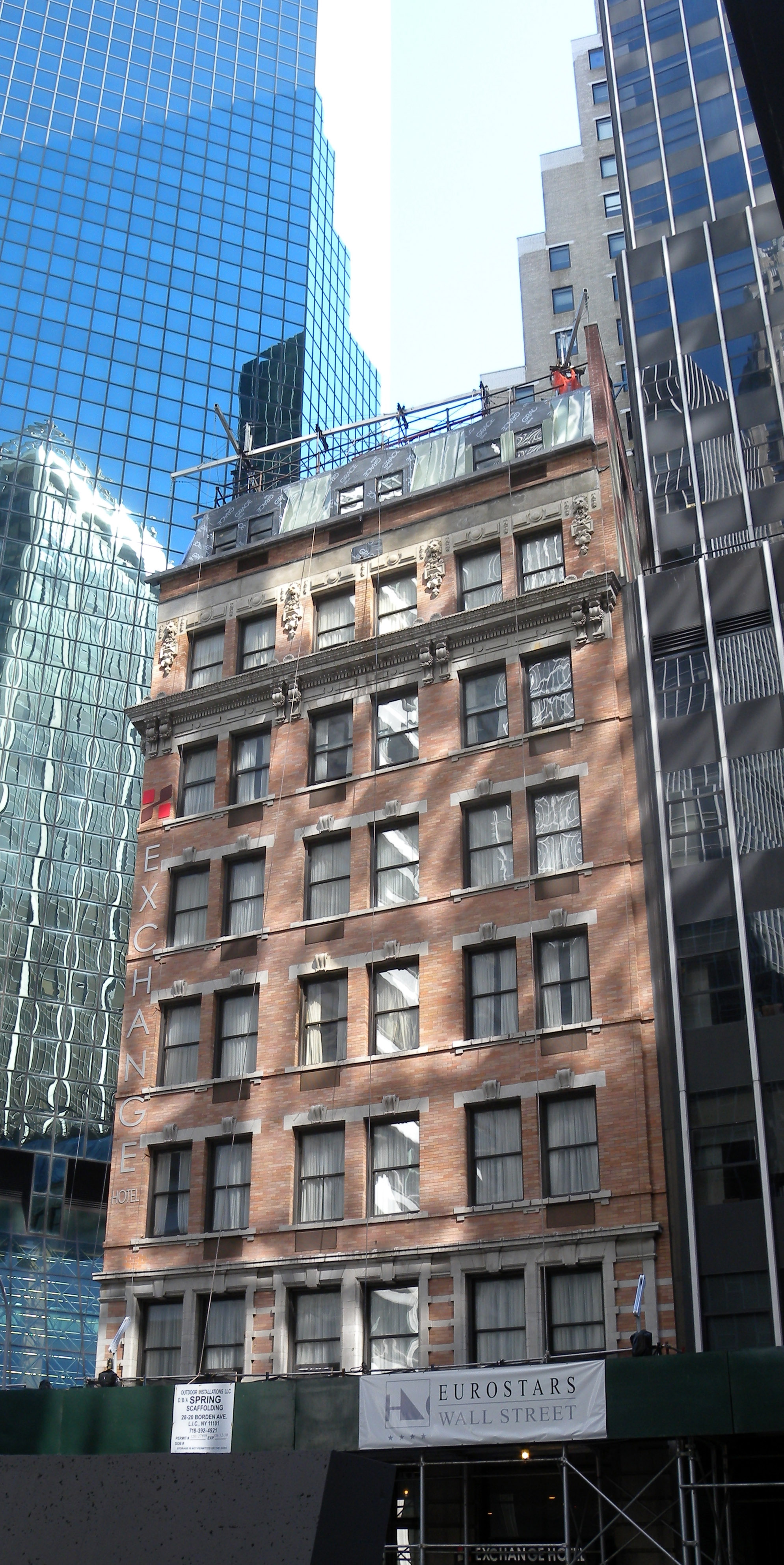 Looking southeast across Front Street at Eurostars Wall Street on a sunny midday.